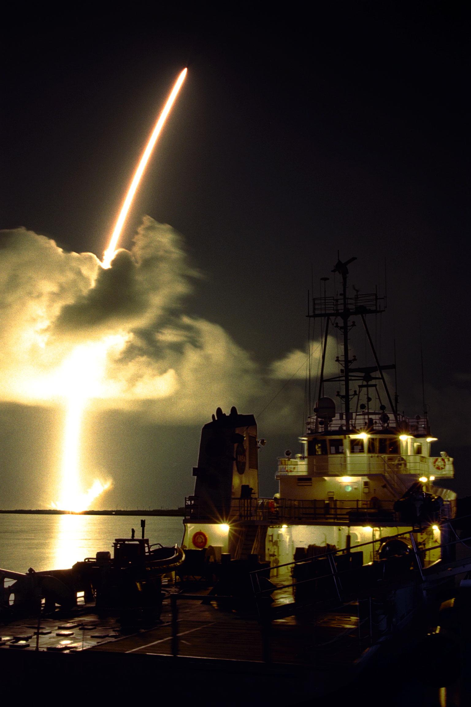 A seven-year journey to the ringed planet Saturn begins with the liftoff of a Titan IVB/Centaur carrying the Cassini orbiter and its attached Huygens probe. This spectacular streak shot was taken from Hangar AF on Cape Canaveral Air Station, with a solid rocket booster retrieval ship in the foreground. Launch occurred at 4:43 a.m. EDT, Oct. 15, from Launch Complex 40 on Cape Canaveral Air Station. After a 2.2-billion mile journey that will include two swingbys of Venus and one of Earth to gain additional velocity, the two-story tall spacecraft will arrive at Saturn in July 2004. The orbiter will circle the planet for four years, its complement of 12 scientific instruments gathering data about Saturn's atmosphere, rings and magnetosphere and conducting closeup observations of the Saturnian moons. Huygens, with a separate suite of six science instruments, will separate from Cassini to fly on a ballistic trajectory toward Titan, the only celestial body besides Earth to have an atmosphere rich in nitrogen. Scientists are eager to study further this chemical similarity in hopes of learning more about the origins of our own planet Earth. Huygens will provide the first direct sampling of Titan's atmospheric chemistry and the first detailed photographs of its surface. The Cassini mission is an international effort involving NASA, the European Space Agency (ESA) and the Italian Space Agency, Agenzia Spaziale Italiana (ASI). The Jet Propulsion Laboratory manages the U.S. contribution to the mission for NASA's Office of Space Science. The major U.S. contractor is Lockheed Martin, which provided the launch vehicle and upper stage, spacecraft propulsion module and radioisotope thermoelectric generators that will provide power for the spacecraft. The Titan IV/Centaur is a U.S. Air Force launch vehicle, and launch operations were managed by the 45th Space Wing.